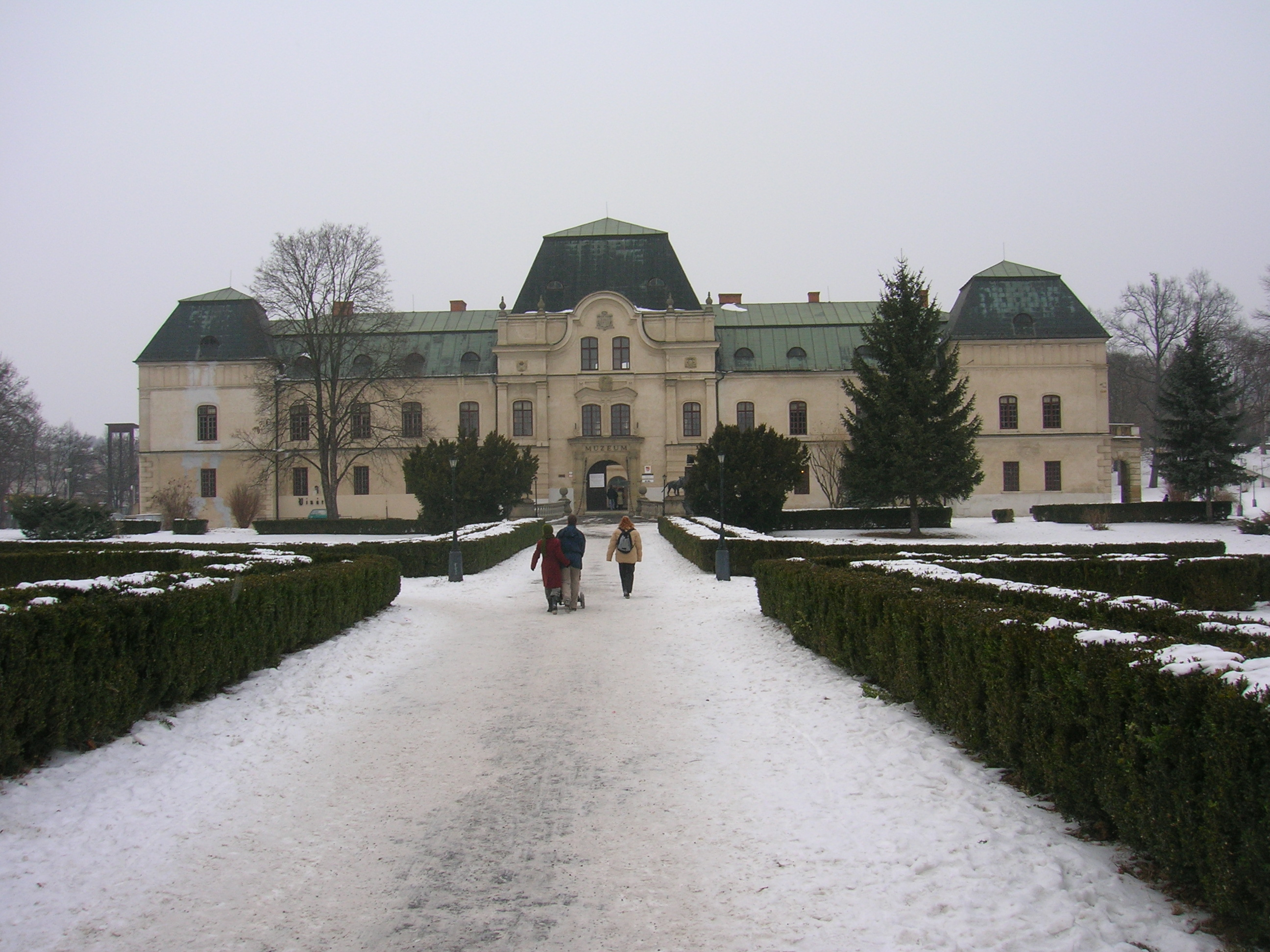 the castle of Humenné, a city in the East of Slovakia This medium shows the protected monument with the number 702-109/1 in the Slovak Republic. This medium shows the protected monument with the number 702-109/2 in the Slovak Republic.